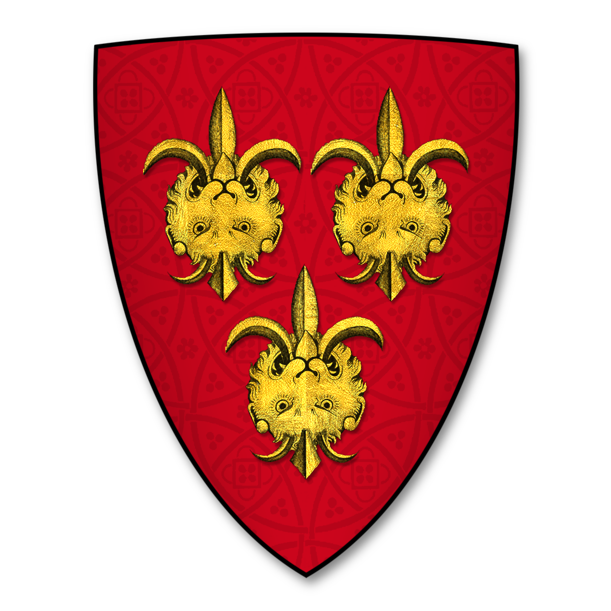 Armorial Bearings of the CANTELUPE family of Herefordshire. William de Cantelupe was Sheriff of that county in 1206. His descendant, St. Thomas de Cantilupe, was Bishop of Hereford. Arms: Gules, three leopards' heads inverted, jessant fleurs de lys or. (now borne by the See of Hereford) Strong, George (1848) The Heraldry of Herefordshire: Being a Collection of the Armorial Bearings of Families Which Have Been Seated in the County at Various Periods Down to the Present Time., London: Churton Press